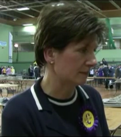 Diane James interviewed at the Eastleigh by-election